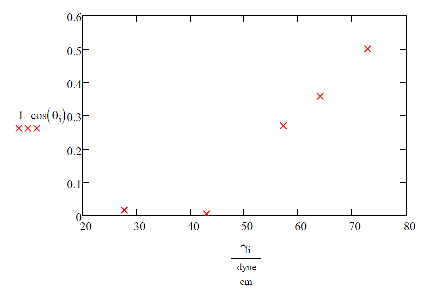 The data from different liquids on a PC (polycarbonate) charted on a Zisman Plot